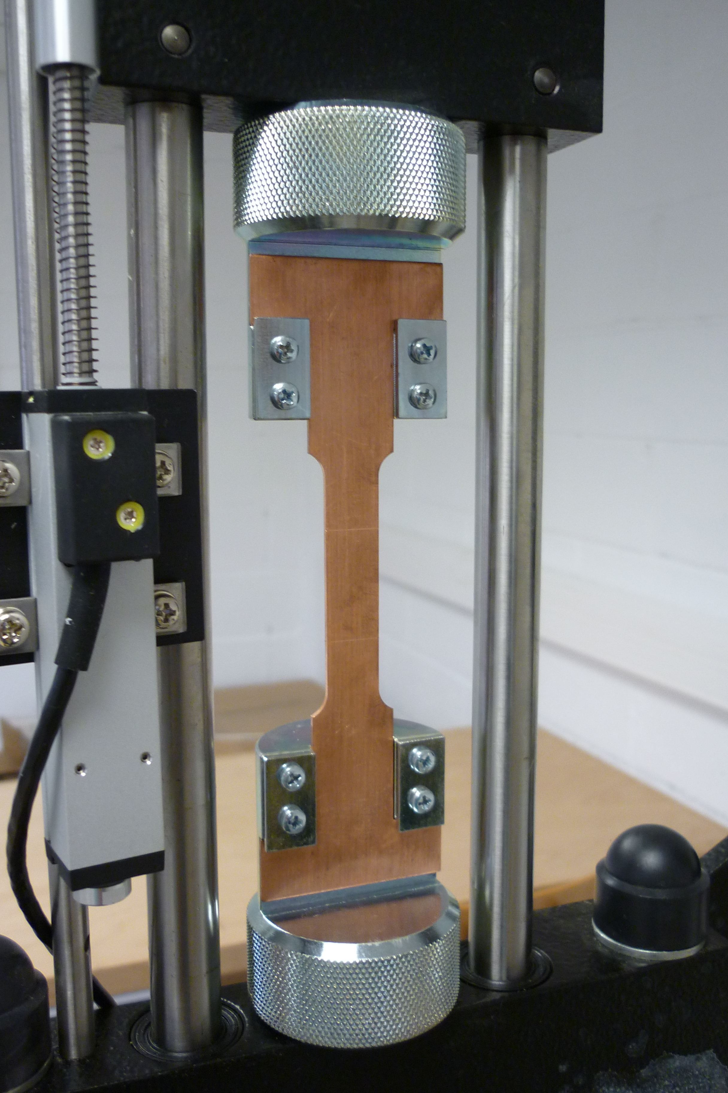 Flat traction sample in a Gunt WP300 traction machine.